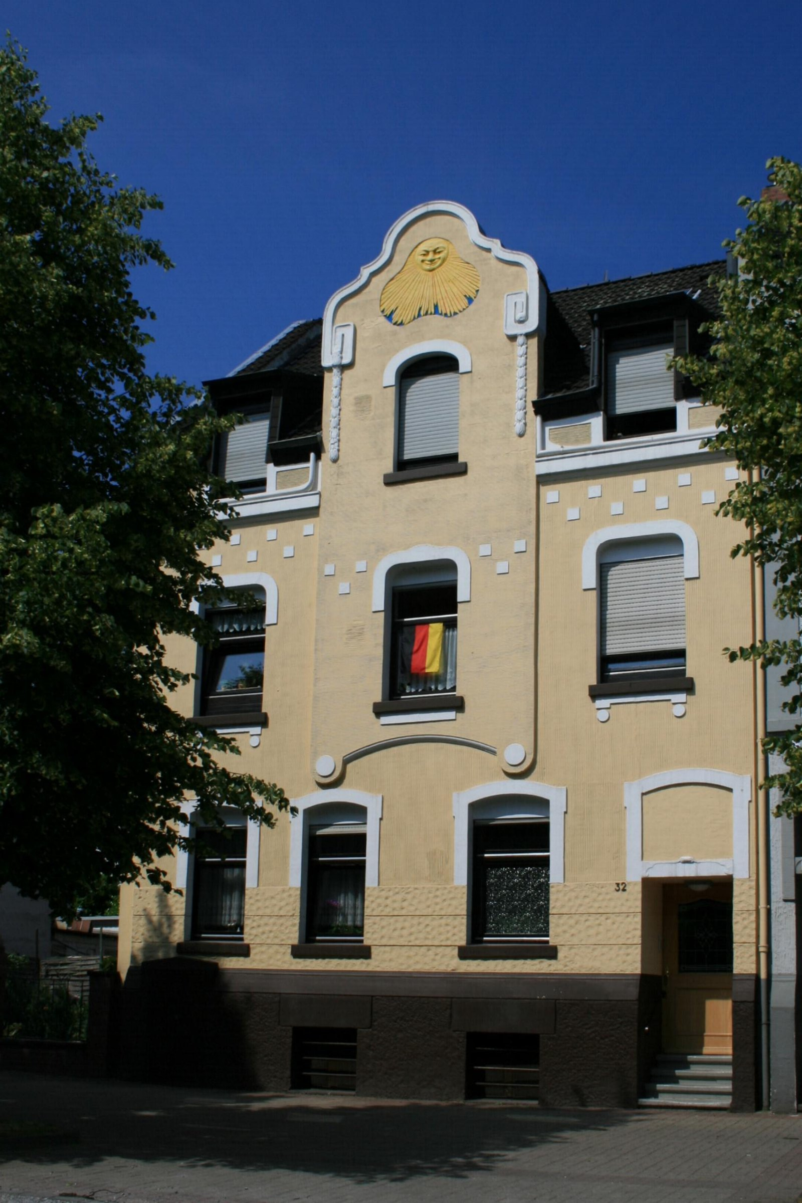 Cultural heritage monument No. S 009 in Mönchengladbach